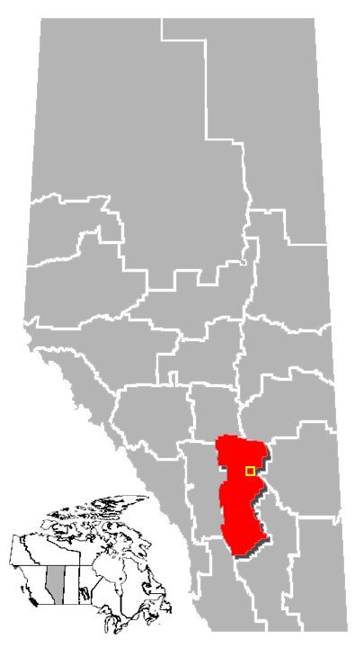 Location of Drumheller, Census Division No. 5, Albera